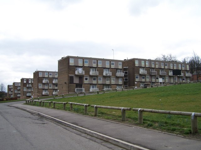 Winn Close and Winn Drive, on the Winn Gardens Estate